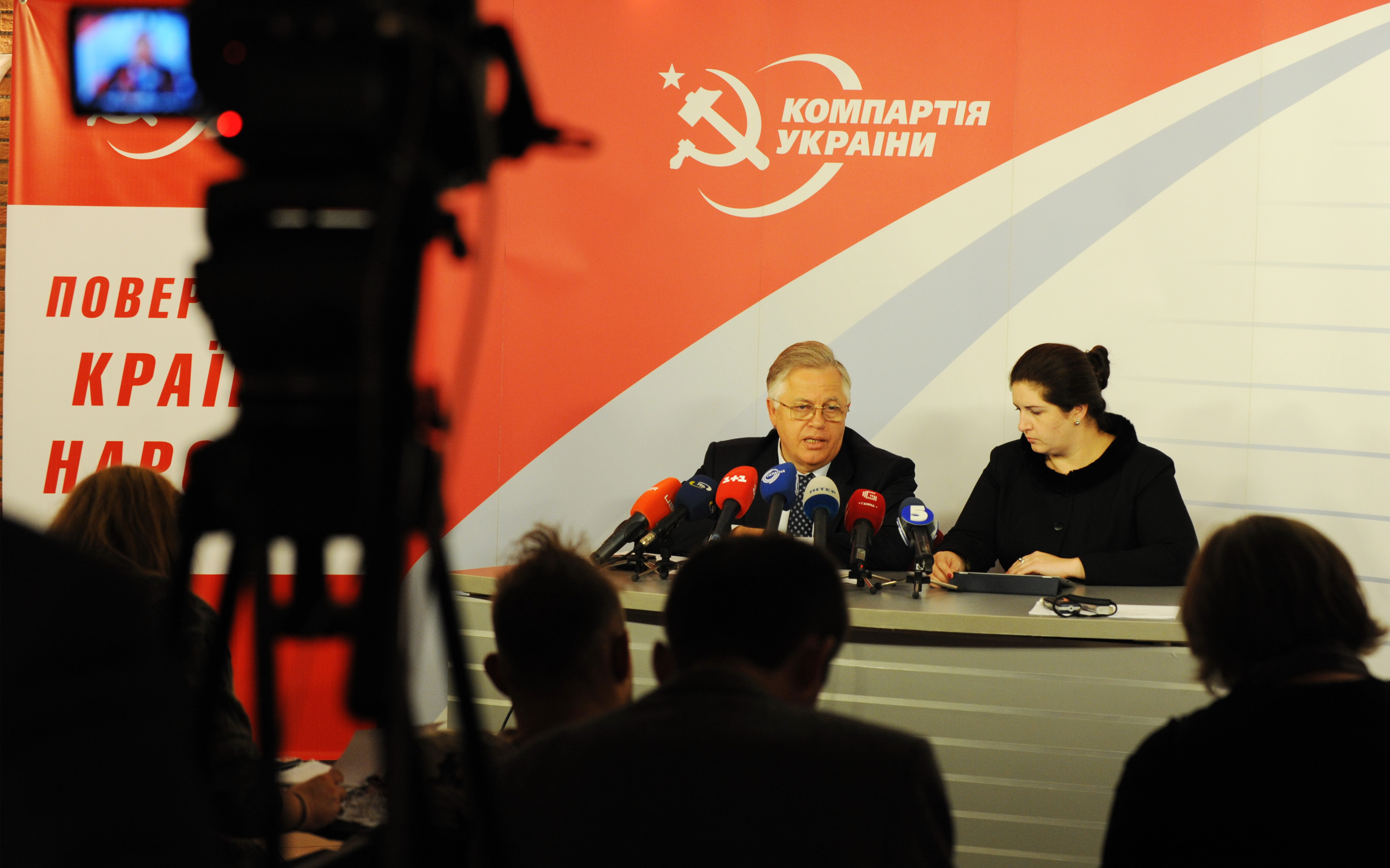 Petro Symonenko Ukrainian parliamentary election, 2012